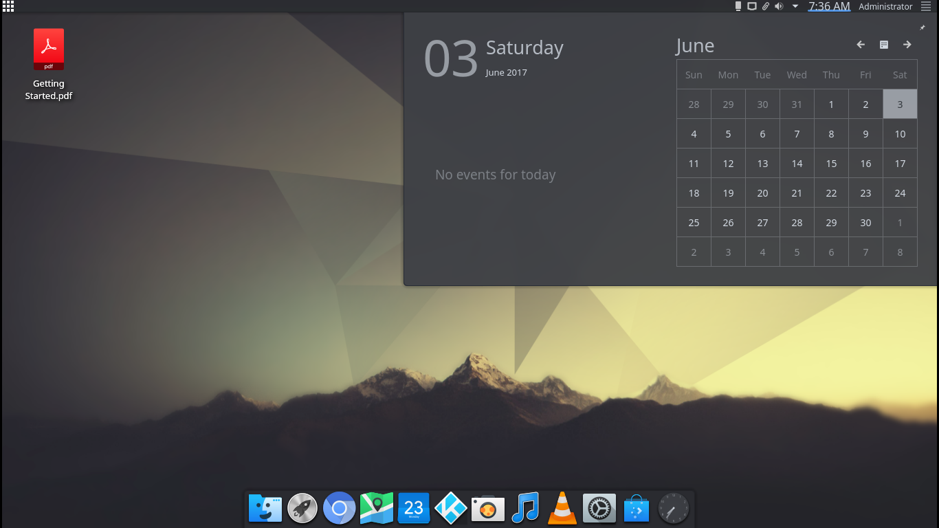 BackSlash Linux Olaf Desktop